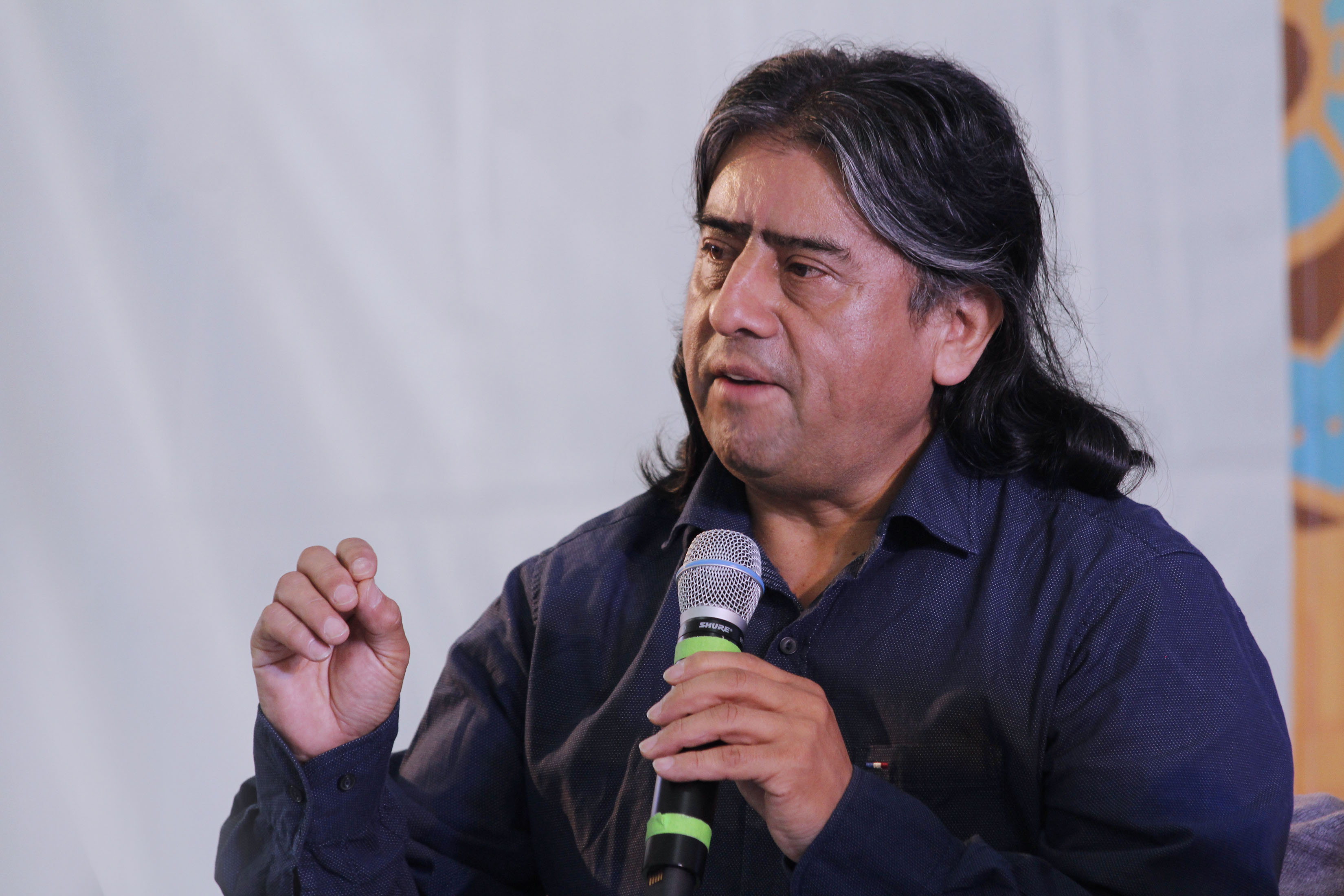 Sábado 9 de septiembre de 2017 En el Foro Carlos Montemayor, de la IV Fiesta de las Culturas Indígenas, Pueblos y Barrios Originarios de la Ciudad de México, se realizó la Charla Propiedad Intelectual, Piratería y biopiratería, formas contemporáneas de usurpación del conocimiento indígena, impartida por María Teresa Huentequeo Toledo, Aucán Huilcamán Paillama y moderada por el secretario de Cultura de la Ciudad de México, Eduardo Vázquez Martín. Fotografía: Maritza Ríos / Secretaría de Cultura CDMX